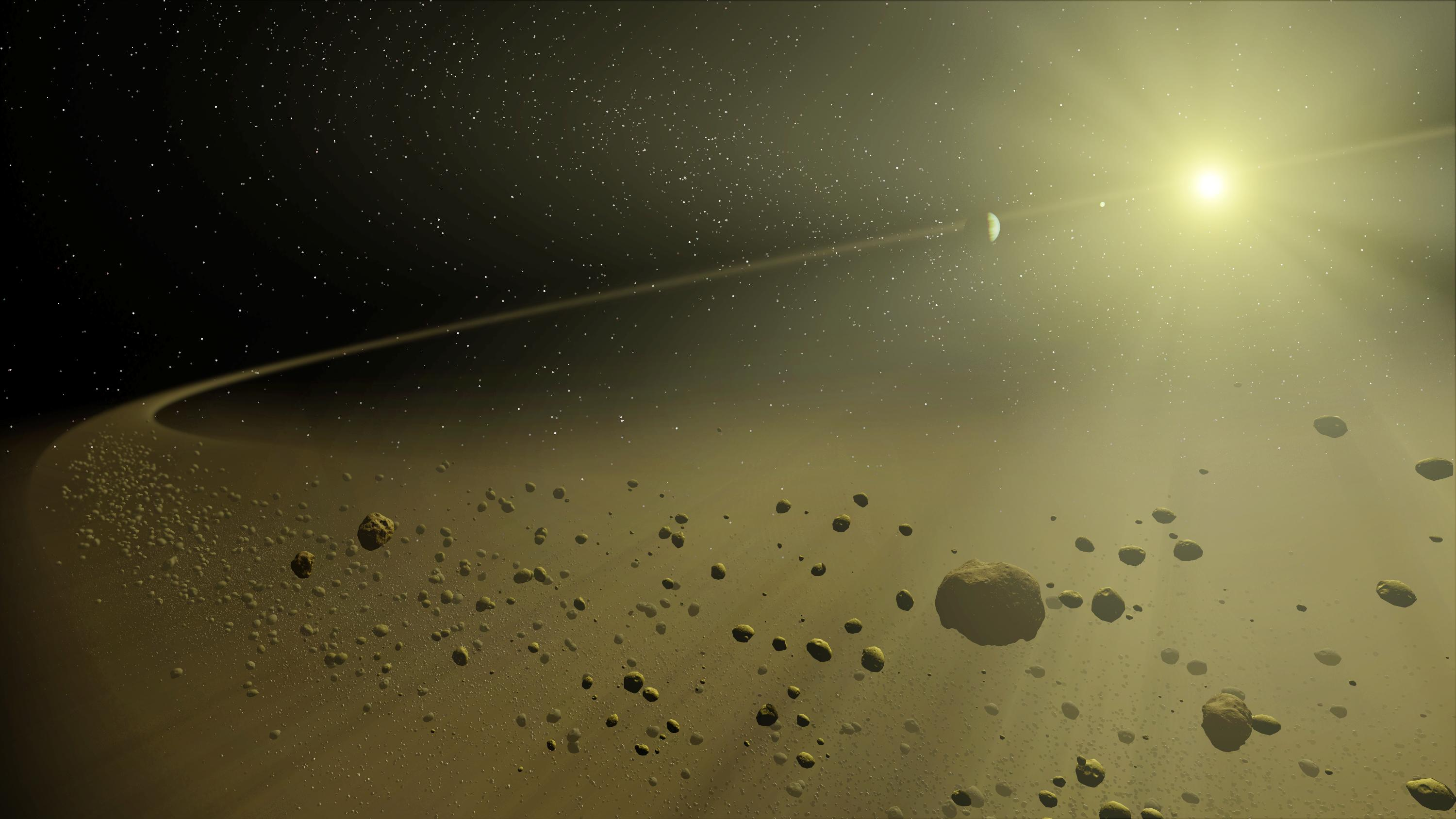 This artist's concept depicts a distant hypothetical solar system, similar in age to our own. Looking inward from the system's outer fringes, a ring of dusty debris can be seen, and within it, planets circling a star the size of our Sun. This debris is all that remains of the planet-forming disk from which the planets evolved. Planets are formed when dusty material in a large disk surrounding a young star clumps together. Leftover material is eventually blown out by solar wind or pushed out by gravitational interactions with planets. Billions of years later, only an outer disk of debris remains. These outer debris disks are too faint to be imaged by visible-light telescopes. They are washed out by the glare of the Sun. However, NASA's Spitzer Space Telescope can detect their heat, or excess thermal emission, in infrared light. This allows astronomers to study the aftermath of planet building in distant solar systems like our own. [1]